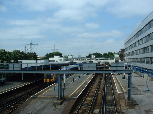 Southampton Central Station, viewed from the footbridge and looking West. A brand new Desiro train waits patiently at Platform 3.